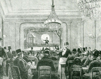 Nørrebros Teater in the 1890s in Copenhagen, Denmark190+s